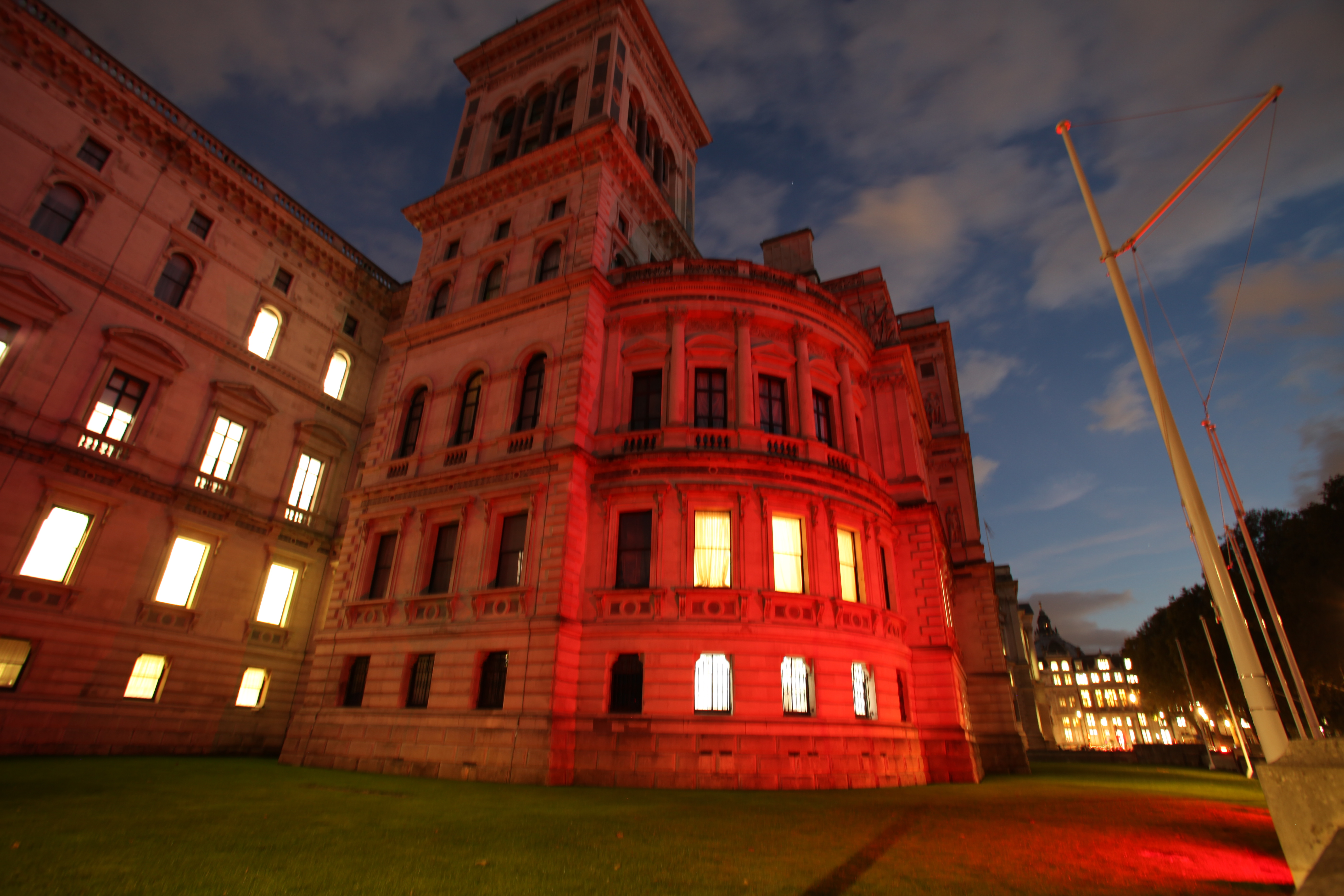 The FCO in London is illuminated in red to support Anti-Slavery Day, 18 October 2018.